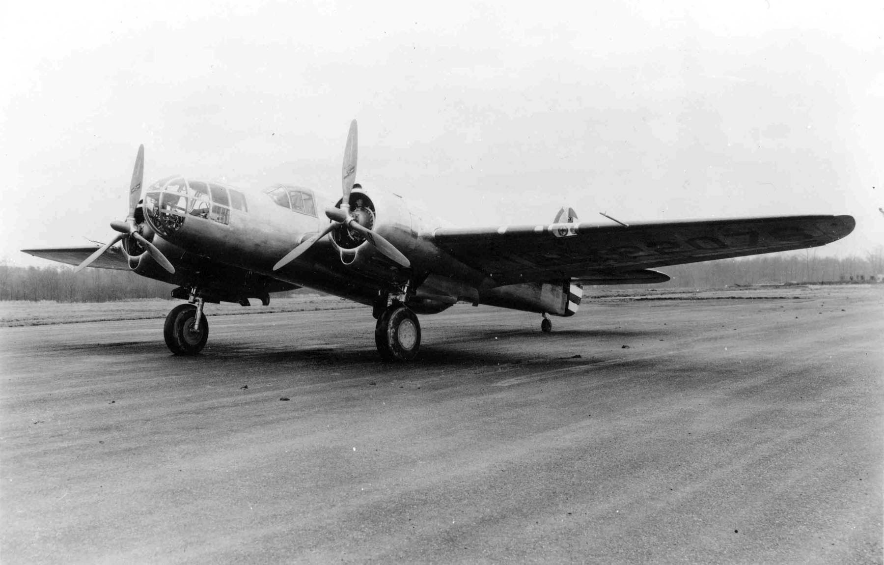 The Martin XA-22 prototype on 13 April 1939. Although losing the USAAF competition against the Douglas A-20, the type was ordered by the French government as the Martin 167F. After the fall of France in June 1940 the French orders were taken over by the British which used the type as the Martin Maryland Mk I. Note the civil registration number "NX22076" on the lower left wing (the later USAAF serial was 40-706).